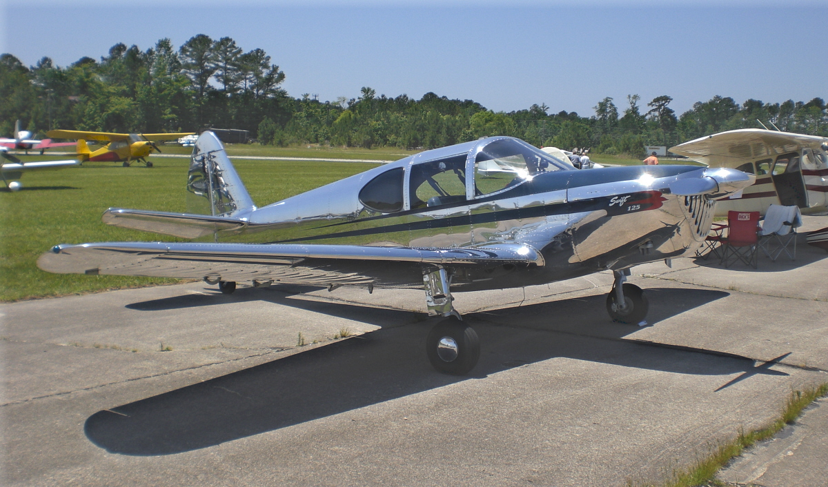 Temco GC-1B, 125 HP, 1949, 2009 Virginia Regional Festival of Flight, Suffolk, VA